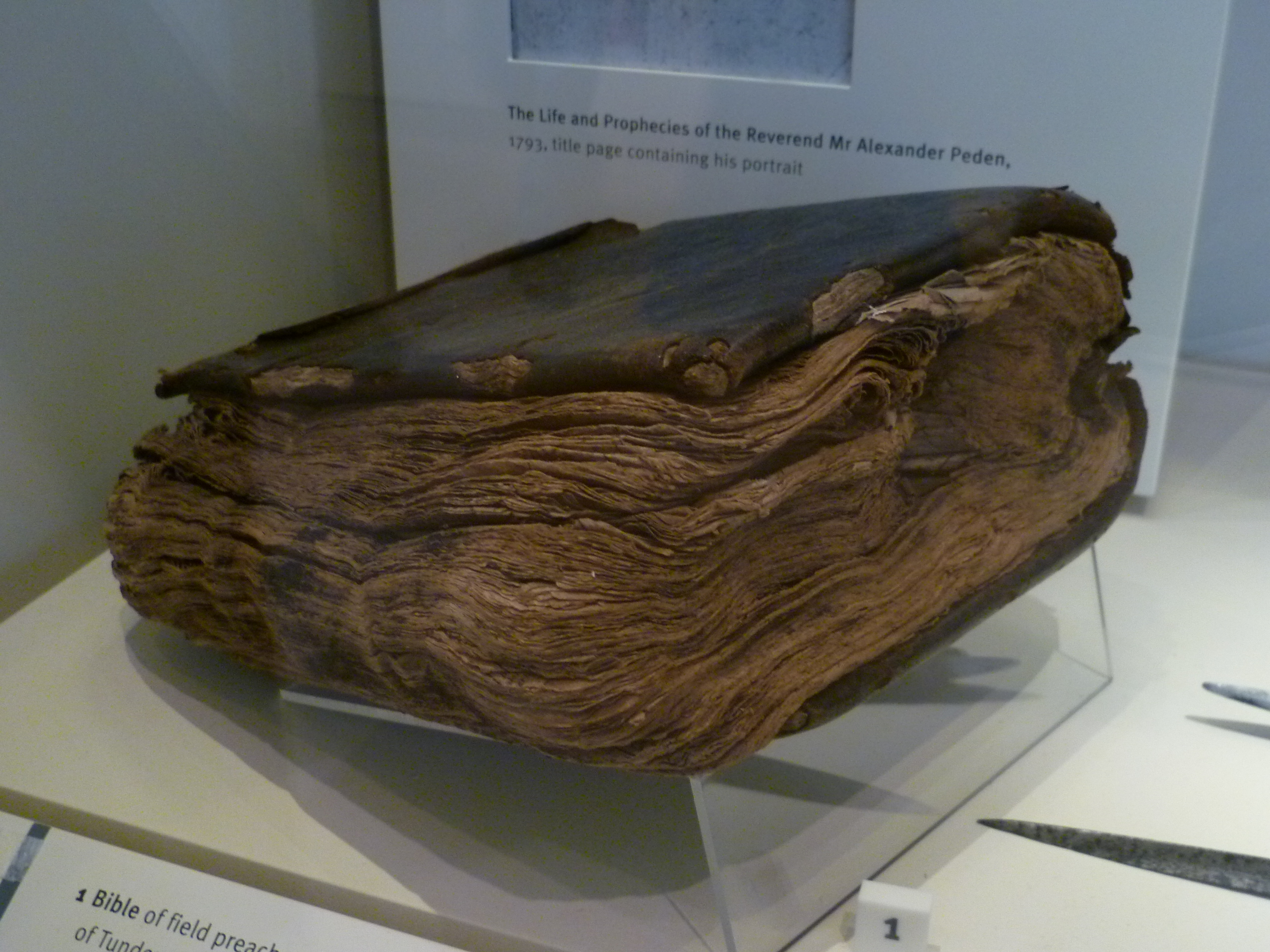 The bible of William Hannay of Tundergarth, Dumfriesshire, who was a Covenanter during 'The Killing Time'. Hannay hid among straw in a barn on the approach of government troops. He escaped to the hills, leaving his bible behind, and returned later to find it damaged by a sword thrust. An exhibit in the National Museum of Scotland, Edinburgh.